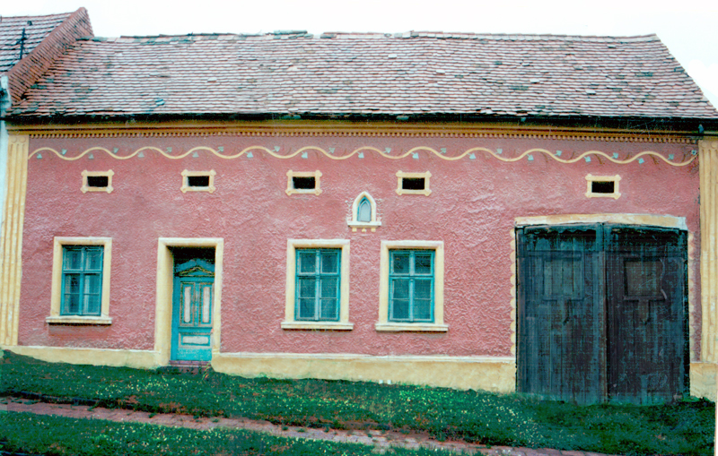 Vesky village, Moravia